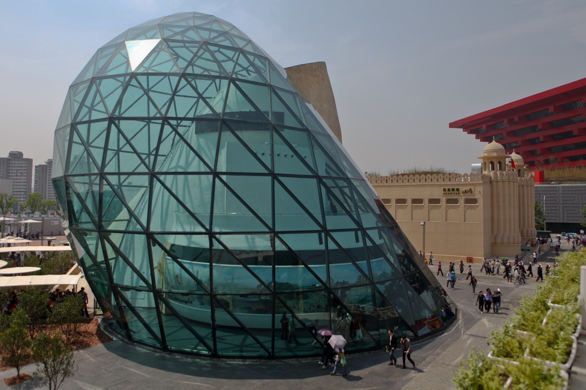 Israel's Pavillion at the 2010 World Expo in Shanghai